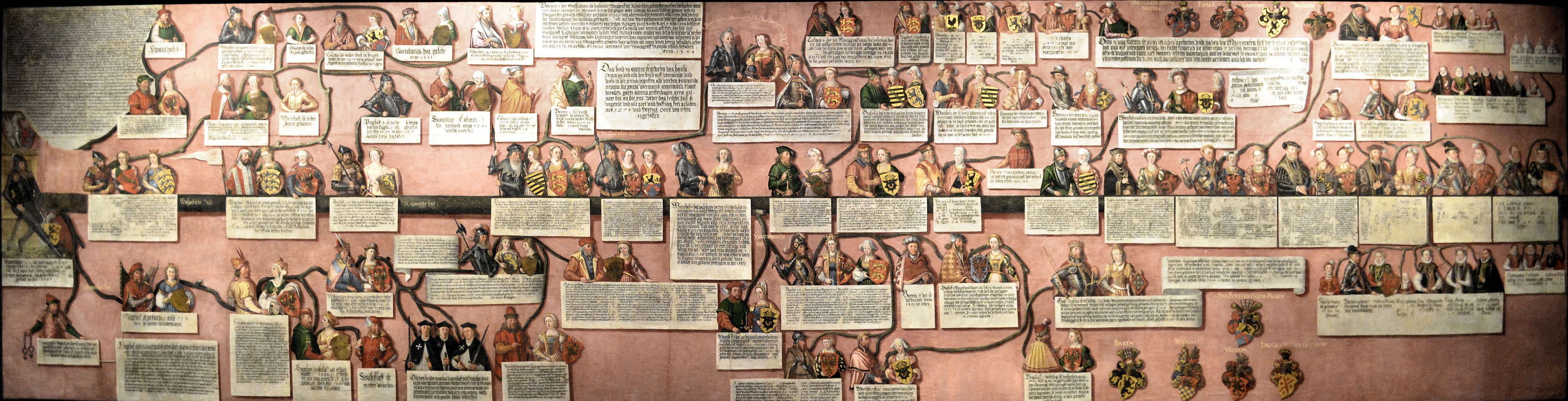 Pedigree of the Pomeranian Dukes